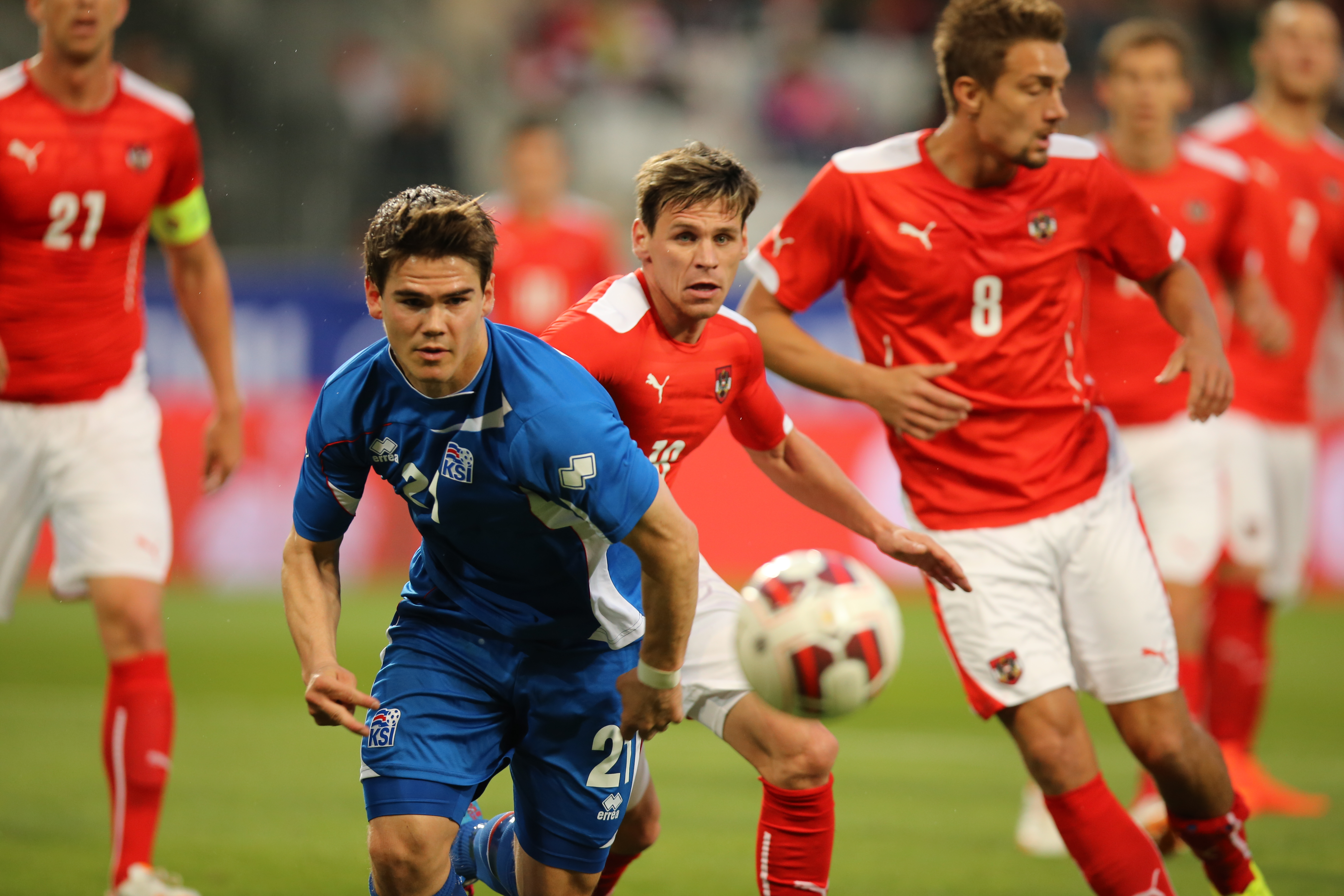 Austria - Iceland football match in Innsbruck, Austria on 2014-05-30. Austria in red, Iceland in blue.